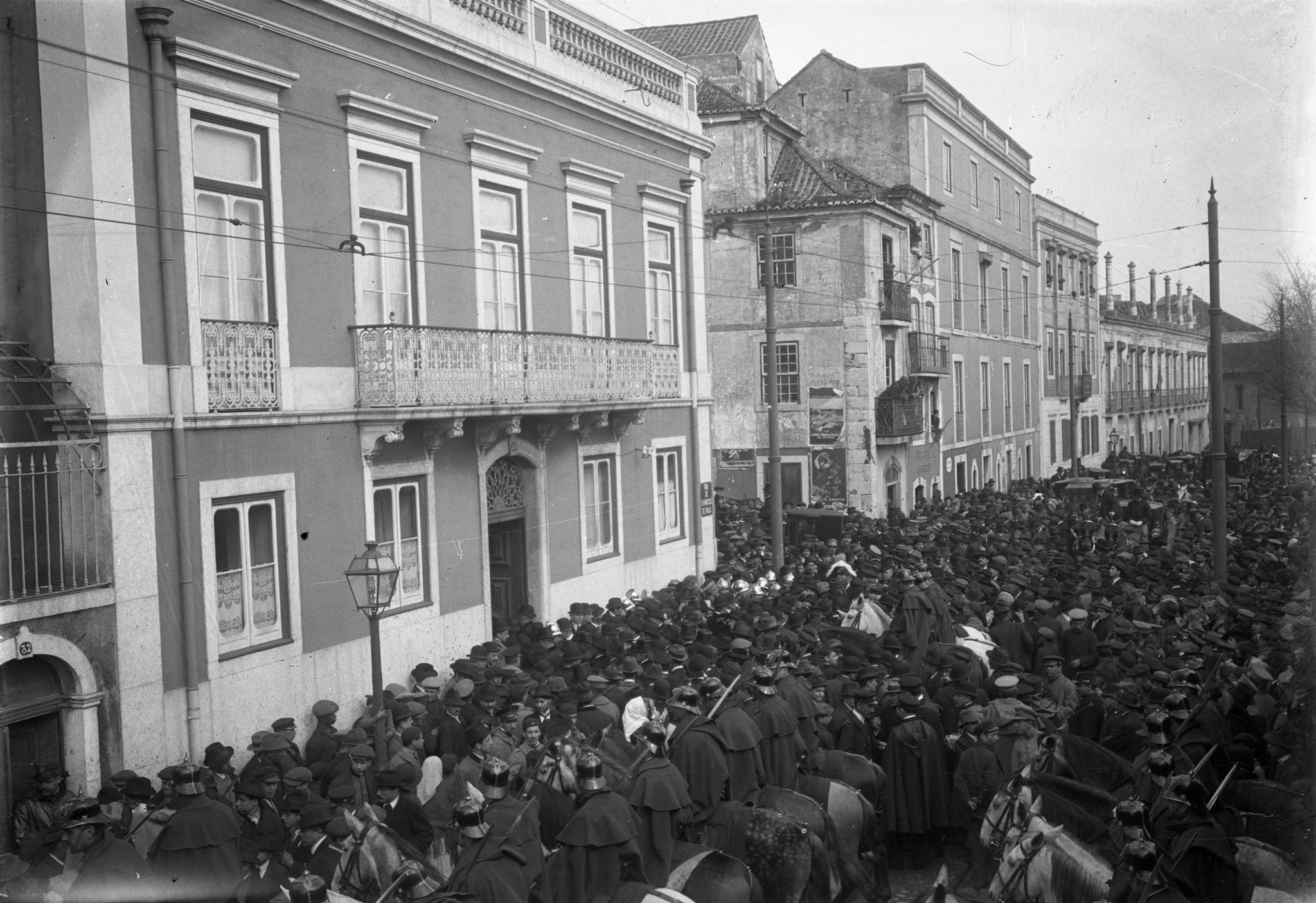 Funeral procession of Manuel de Arriaga, first President-elect of Portugal, leaving his house in Lisbon (in what today is called the Manuel de Arriaga Street; at the time it was called Saint Francis of Paola Street).